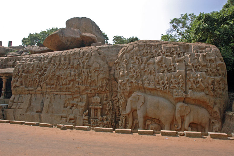 Arjuna’s Penance. Mahabalipuram, India